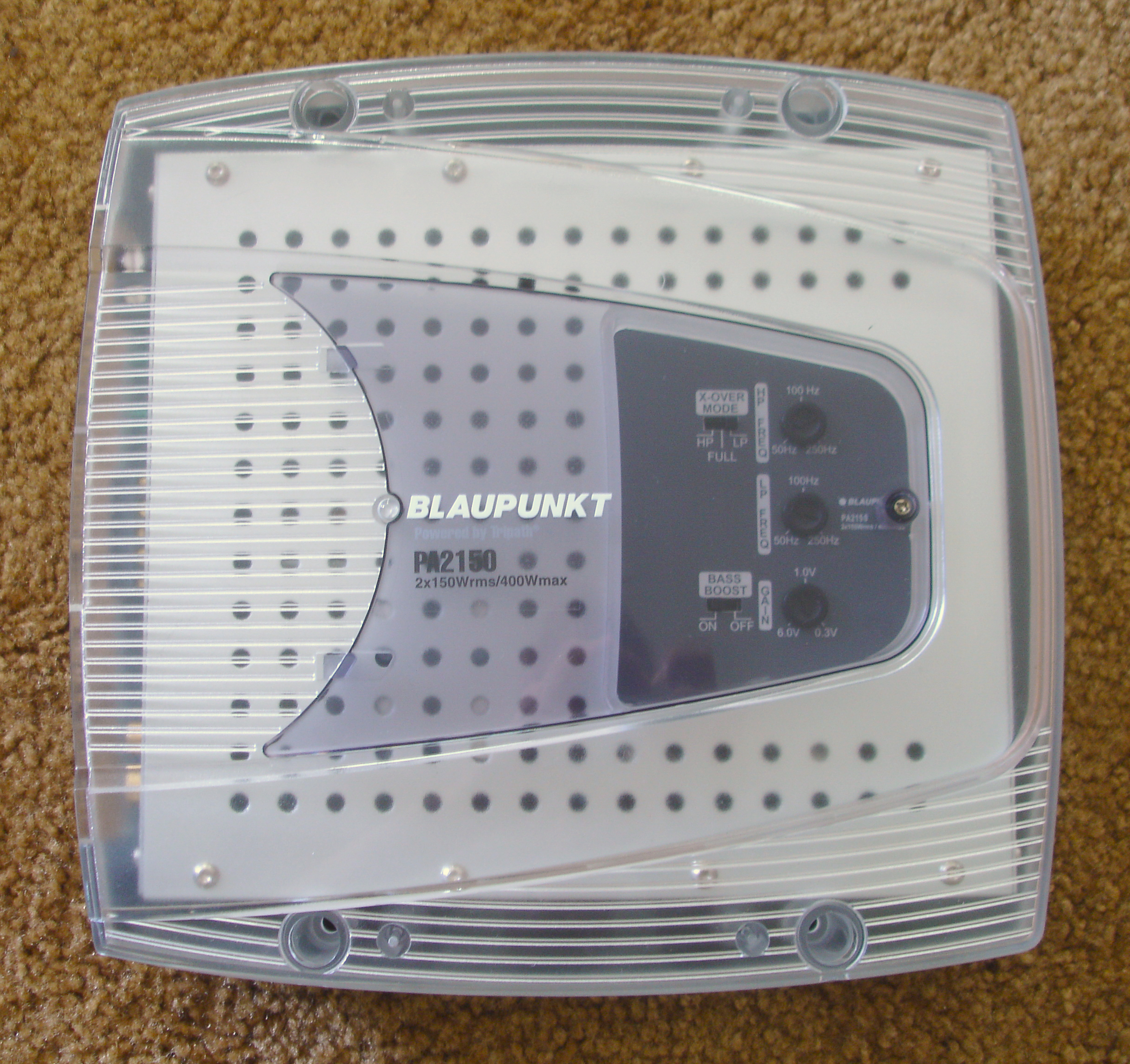 Blaupunkt PA2150 2-channel 150 watt RMS Class T amplifier, top-side view.